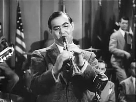 Cropped screenshot of Benny Goodman from the film Stage Door Canteen.